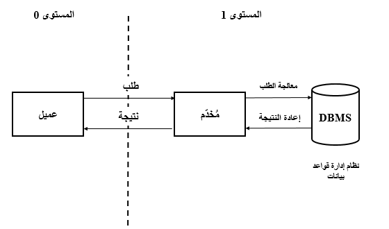 2-tier client/server model architecture.